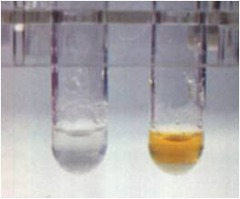 Larutan bening (kiri) merupakan larutan kontrol, tidak ada gula sederhana, larutan kuning (kanan) merupakan larutan gula sederhana yang diproduksi akibat pemecahan laktosa.